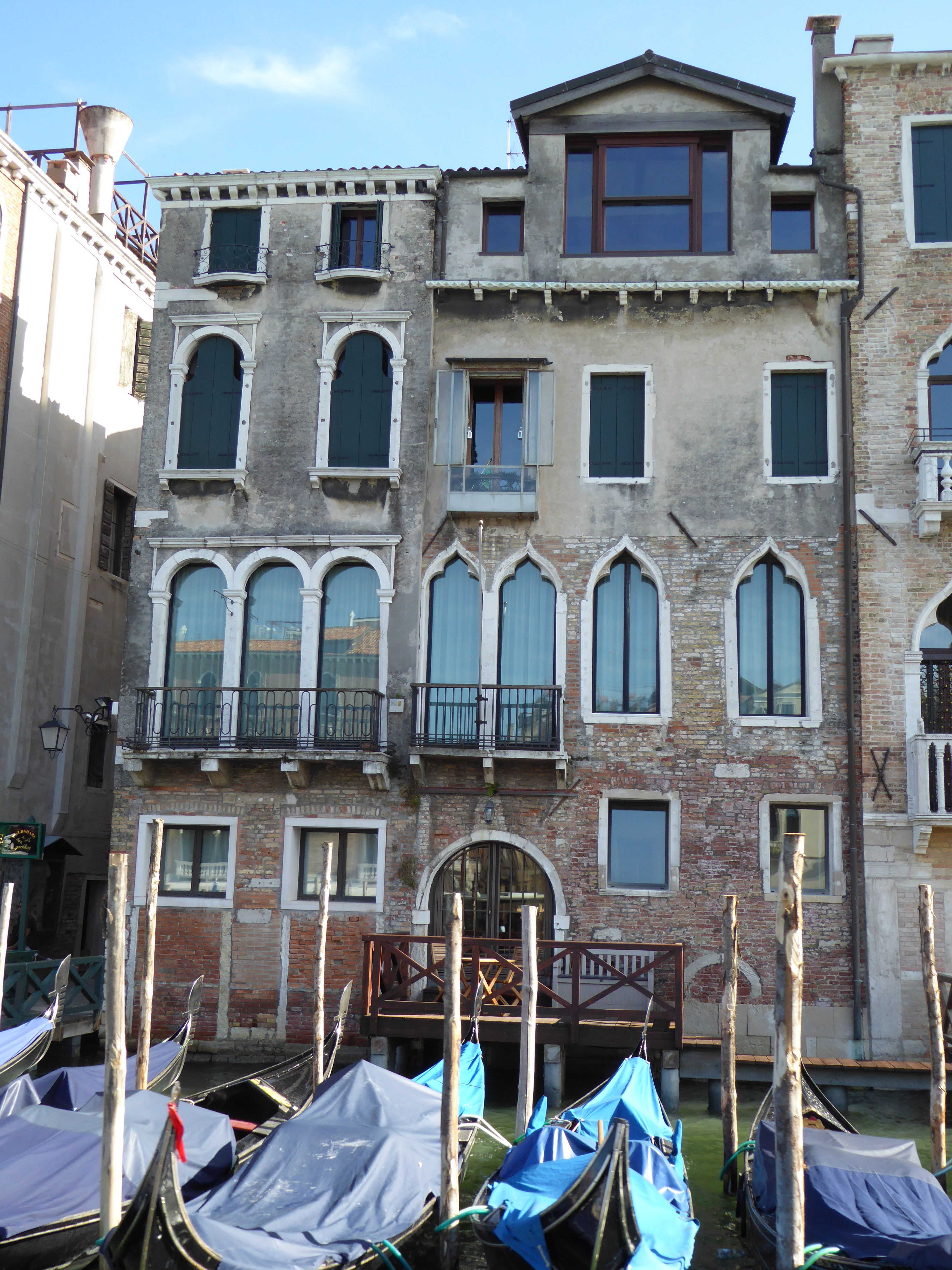 palaces and houses along canal grande